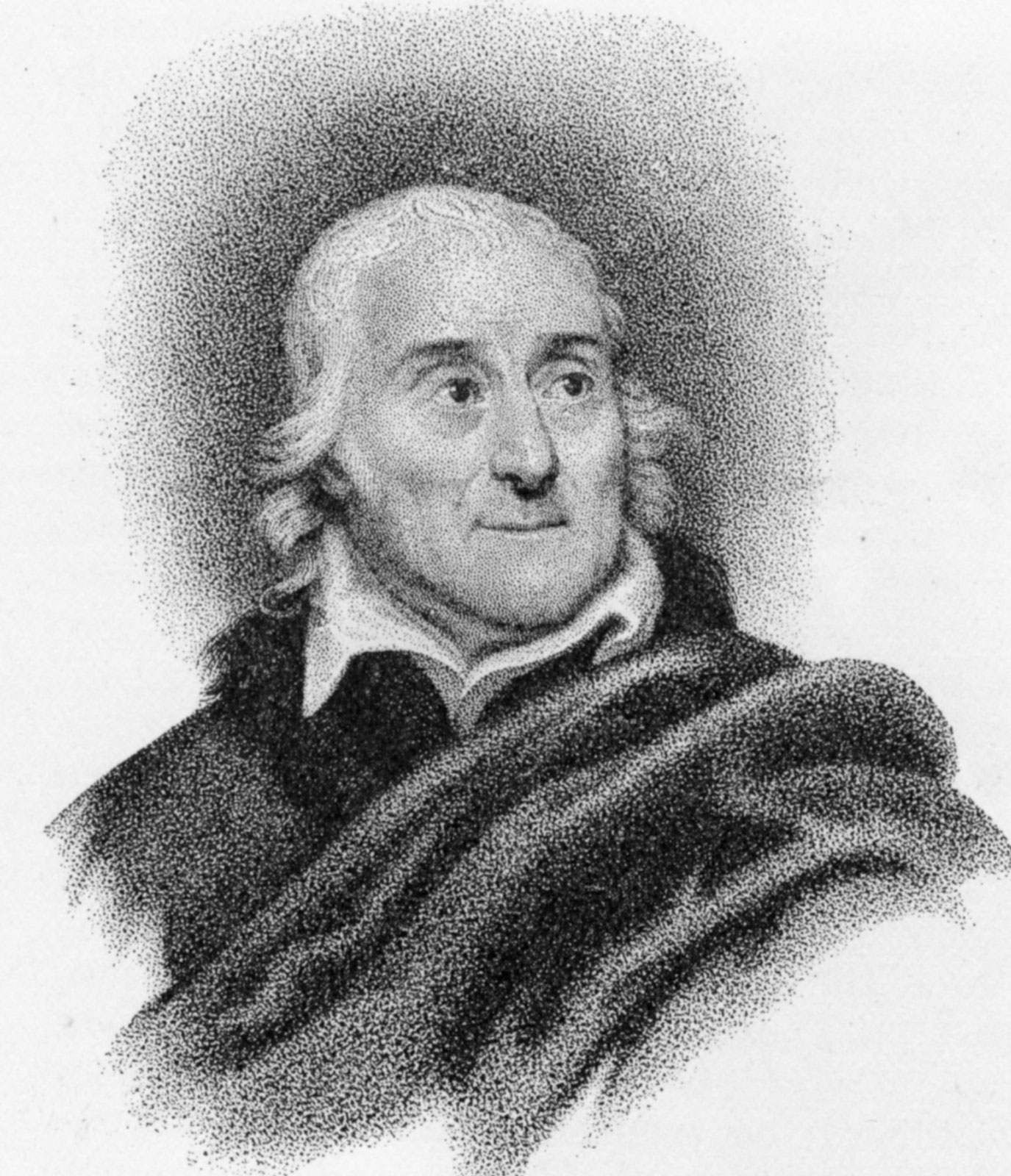 Portrait (engraving) of Lorenzo Da Ponte (1749-1838)